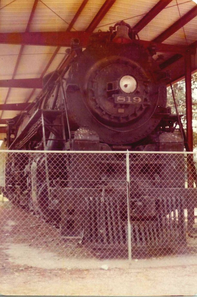 St. Louis Southwestern 819 in the park.